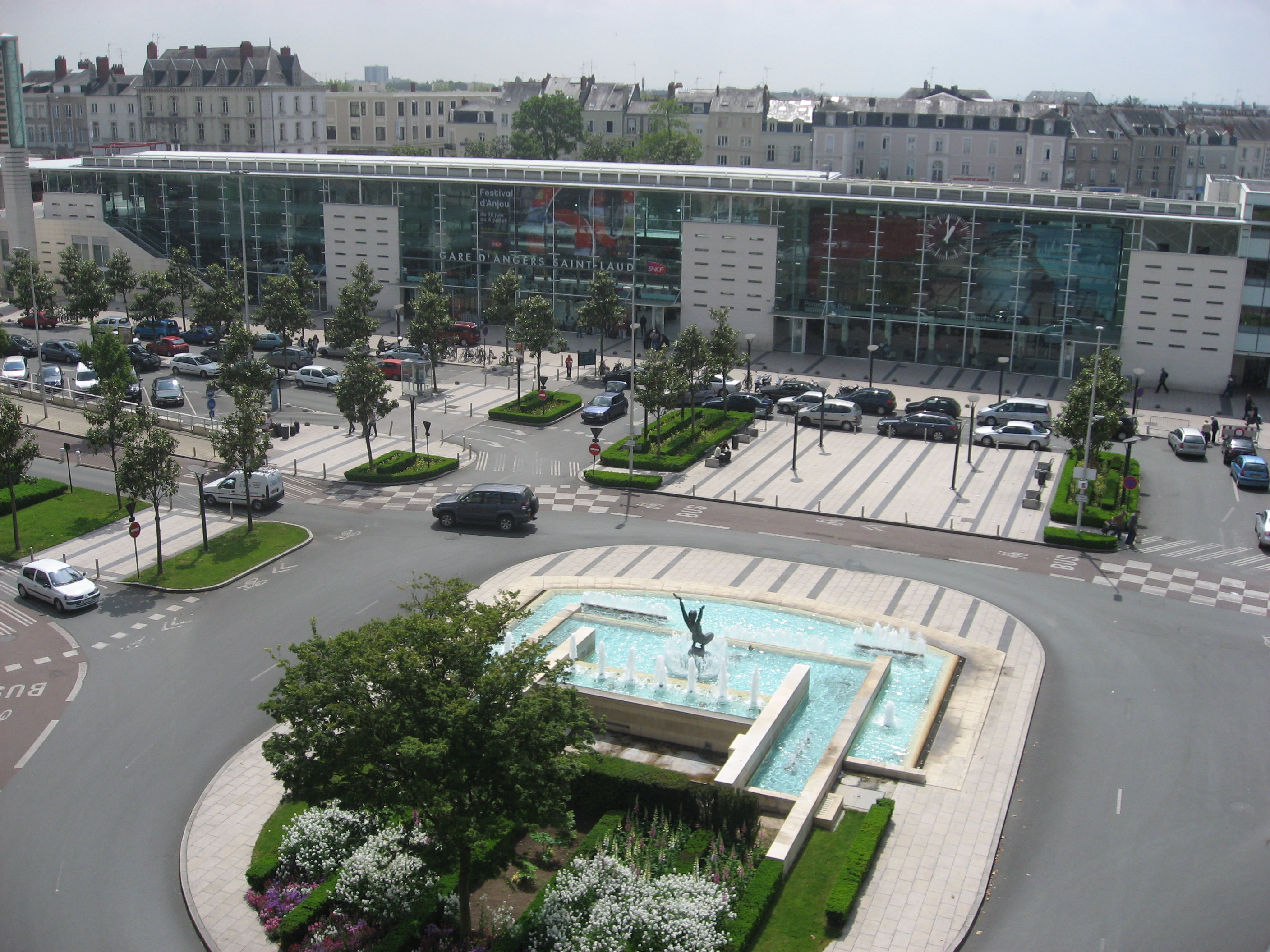 The "Place de la Gare" (station square), with the railway station building in background and the fountain in foreground, in Angers, Maine-et-Loire, Pays de la Loire, France.